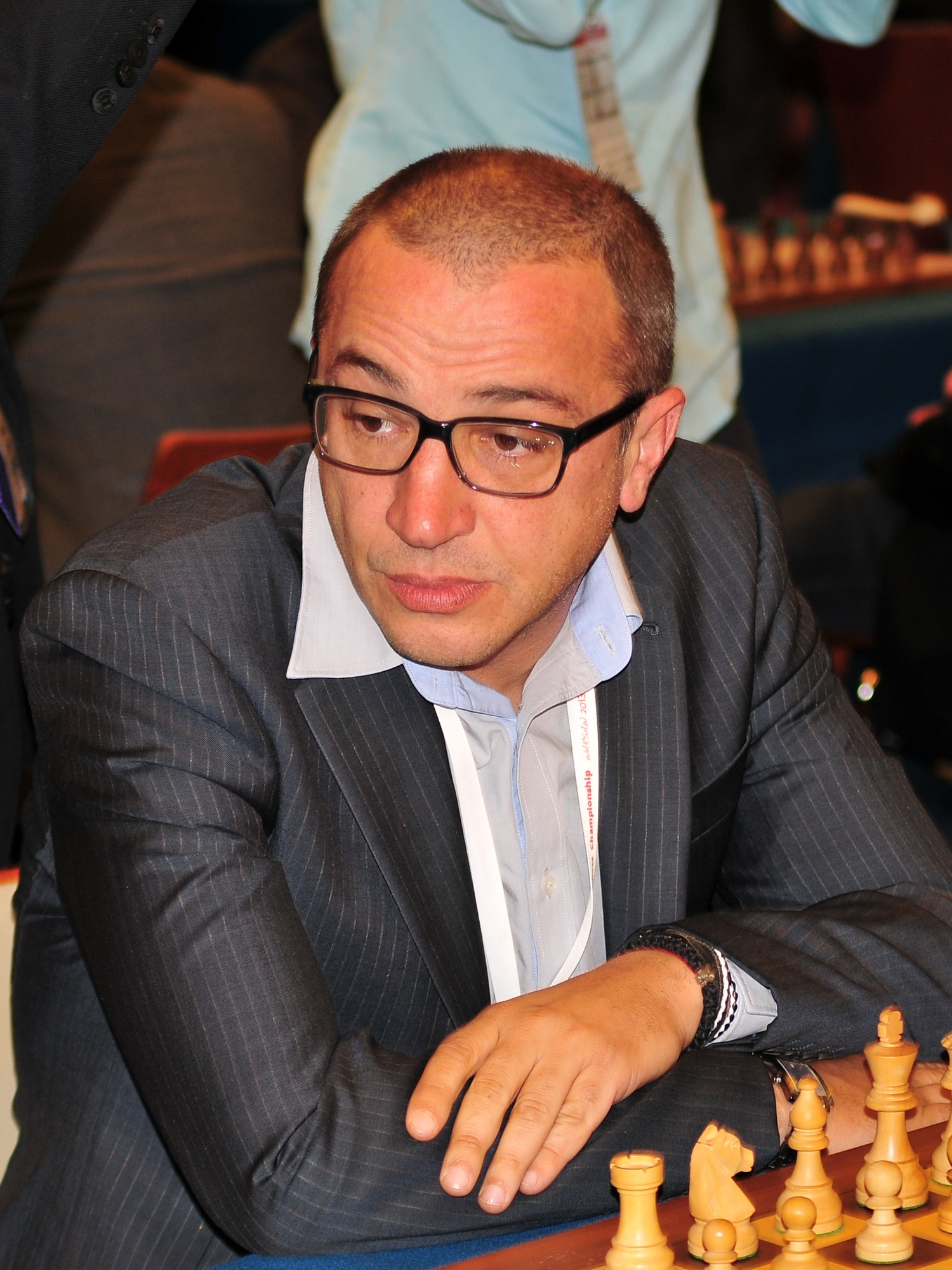 GM Vladimir Petkov, European Chess Team Championship Warsaw 2013